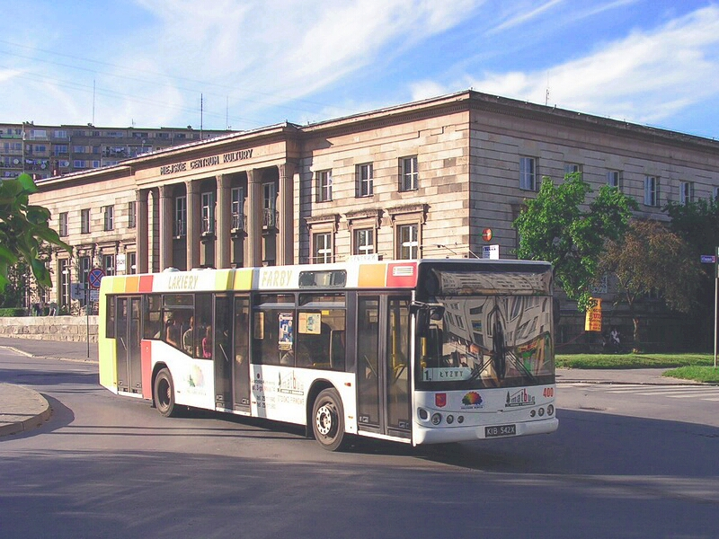 A public transport Neoplan K4016TD city bus (#400) in Skarżysko-Kamienna, Poland. Built 1999, MKS Skarżysko-Kamienna operator.